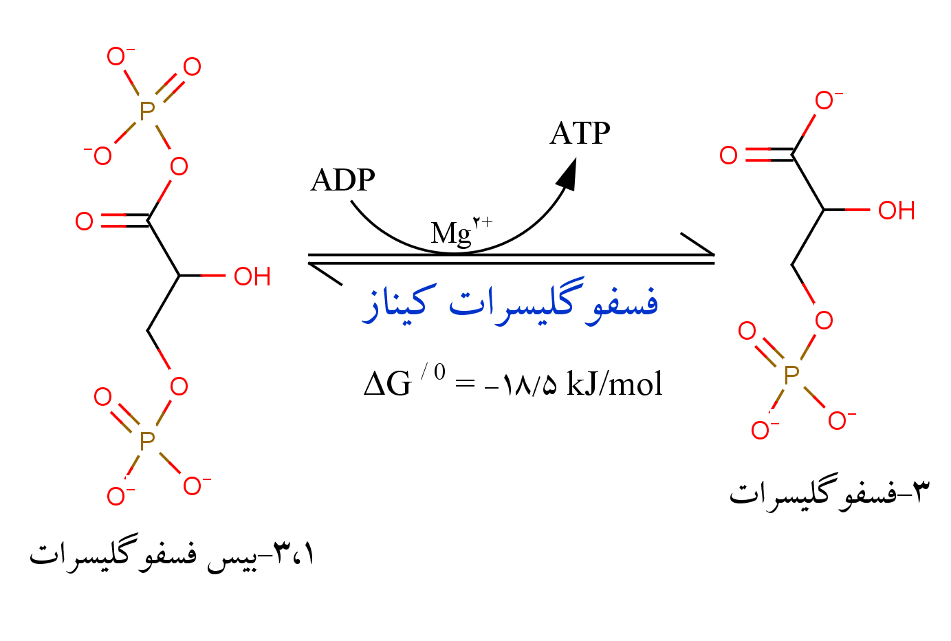 phosphoglycerate kinase reaction